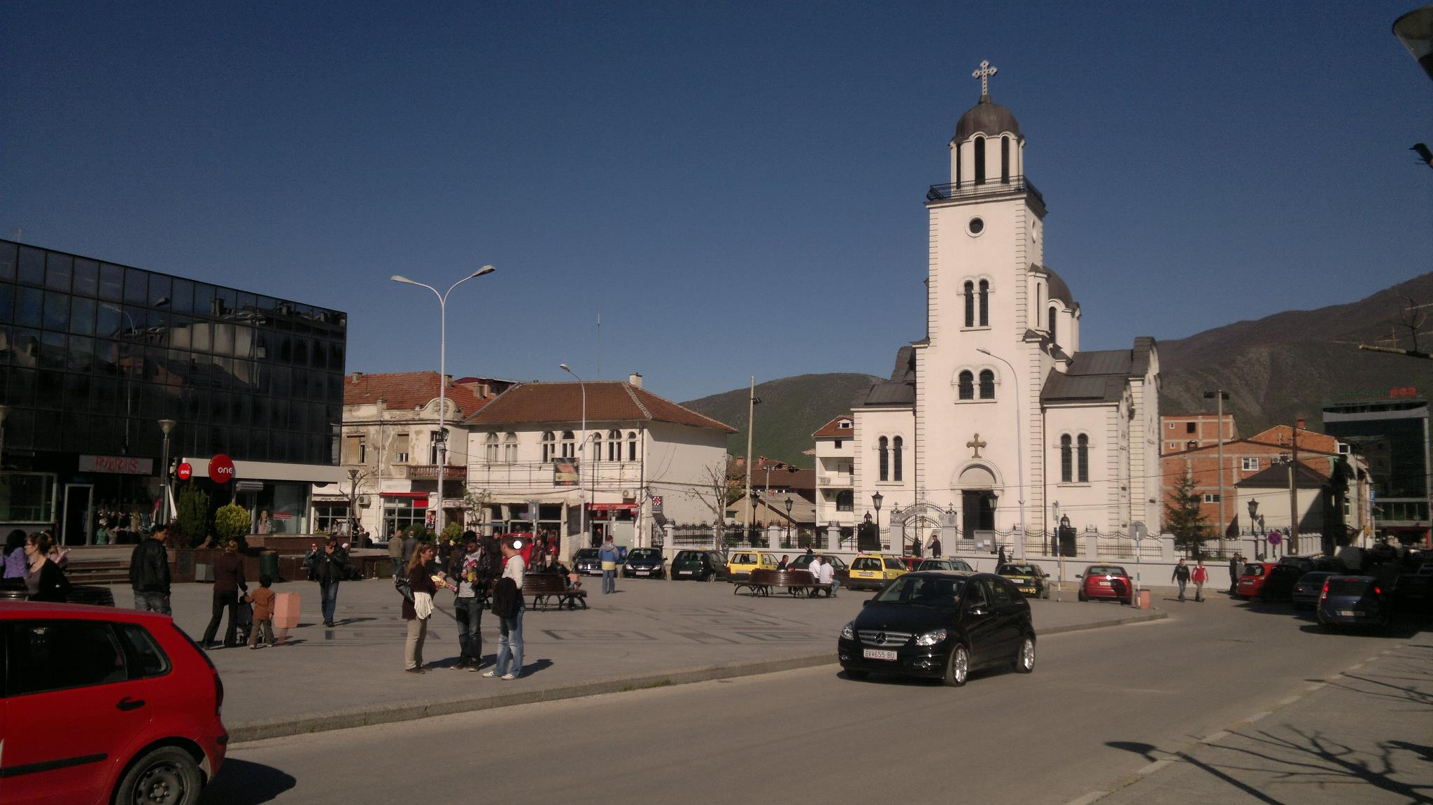 View of Center Of Gostivar,Republic Of Macedonia